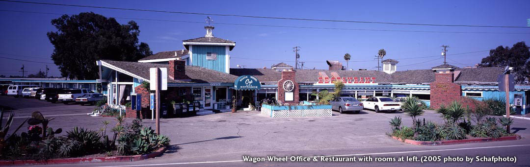 Wagon Wheel Motel, Oxnard CA, USA. Office and restaurant with motel rooms at rear. 2005 photo by schafphoto.